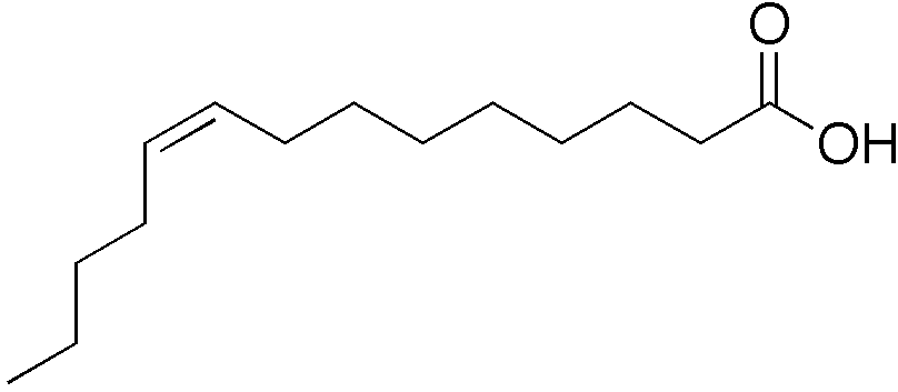 chemical structure of myristoleic acid